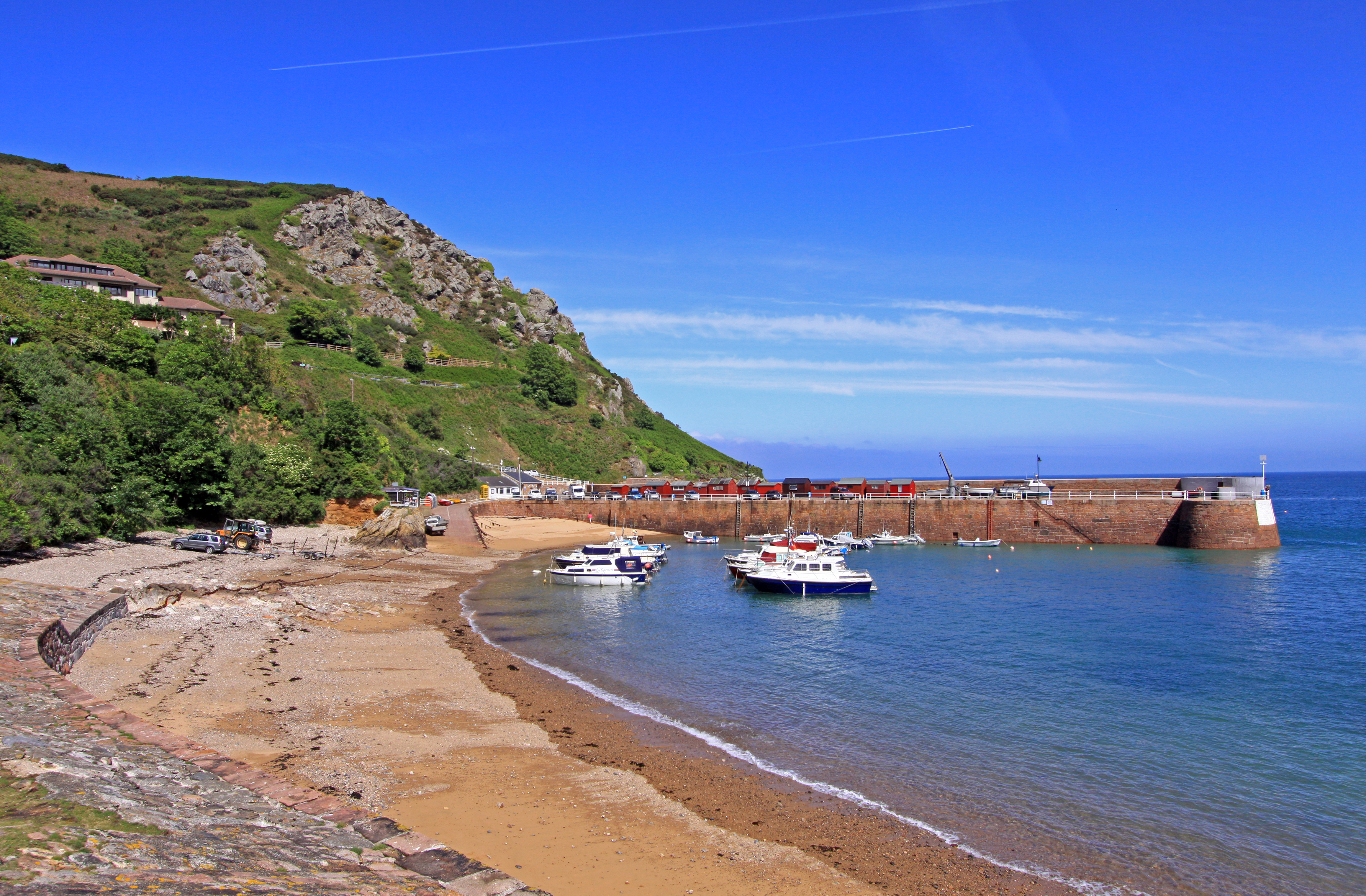 Start of short walk along north coast to Bouley Bay. Really warm day.